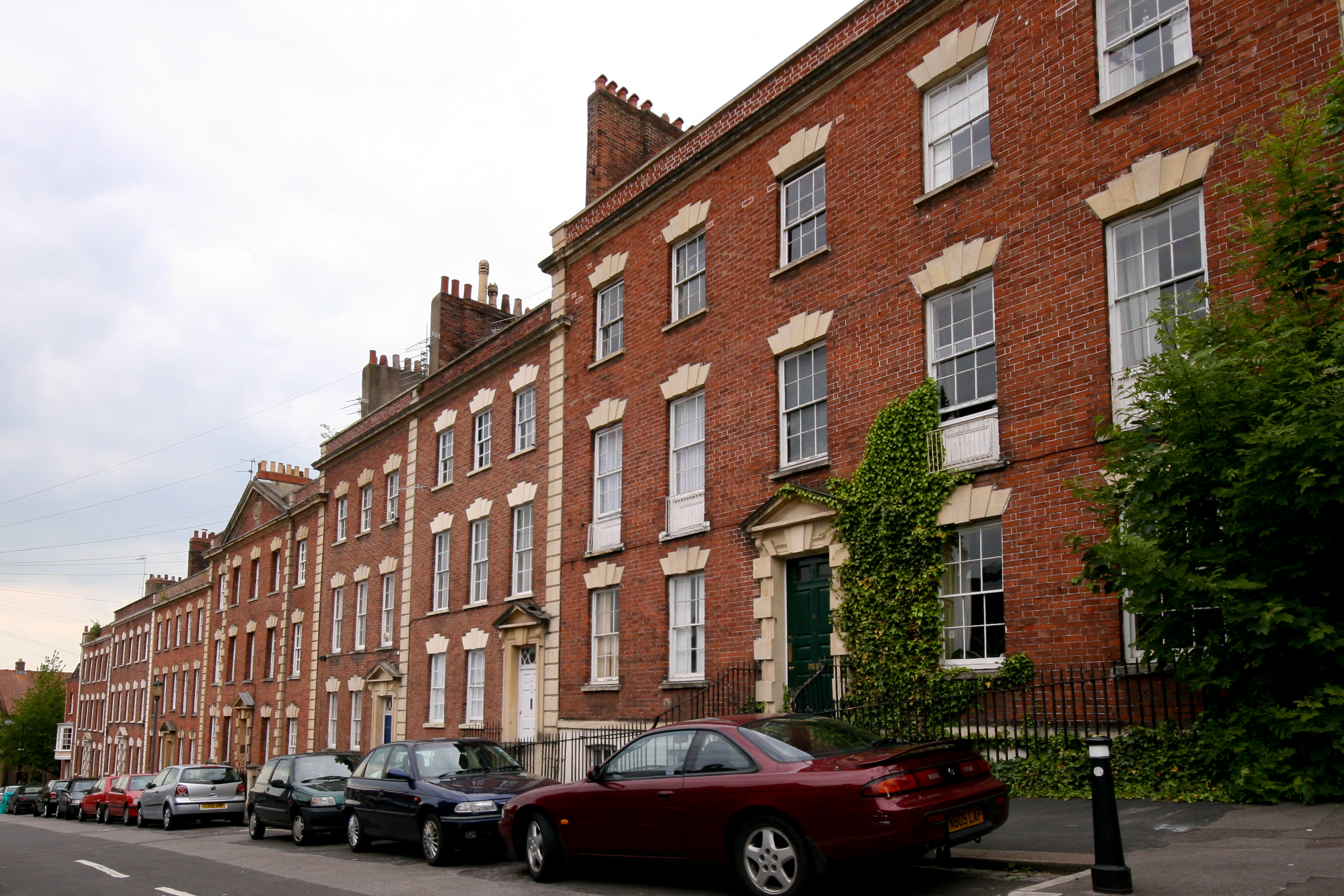 Photograph of Albermarle Row, Bristol, UK a Grade II* Listed Building